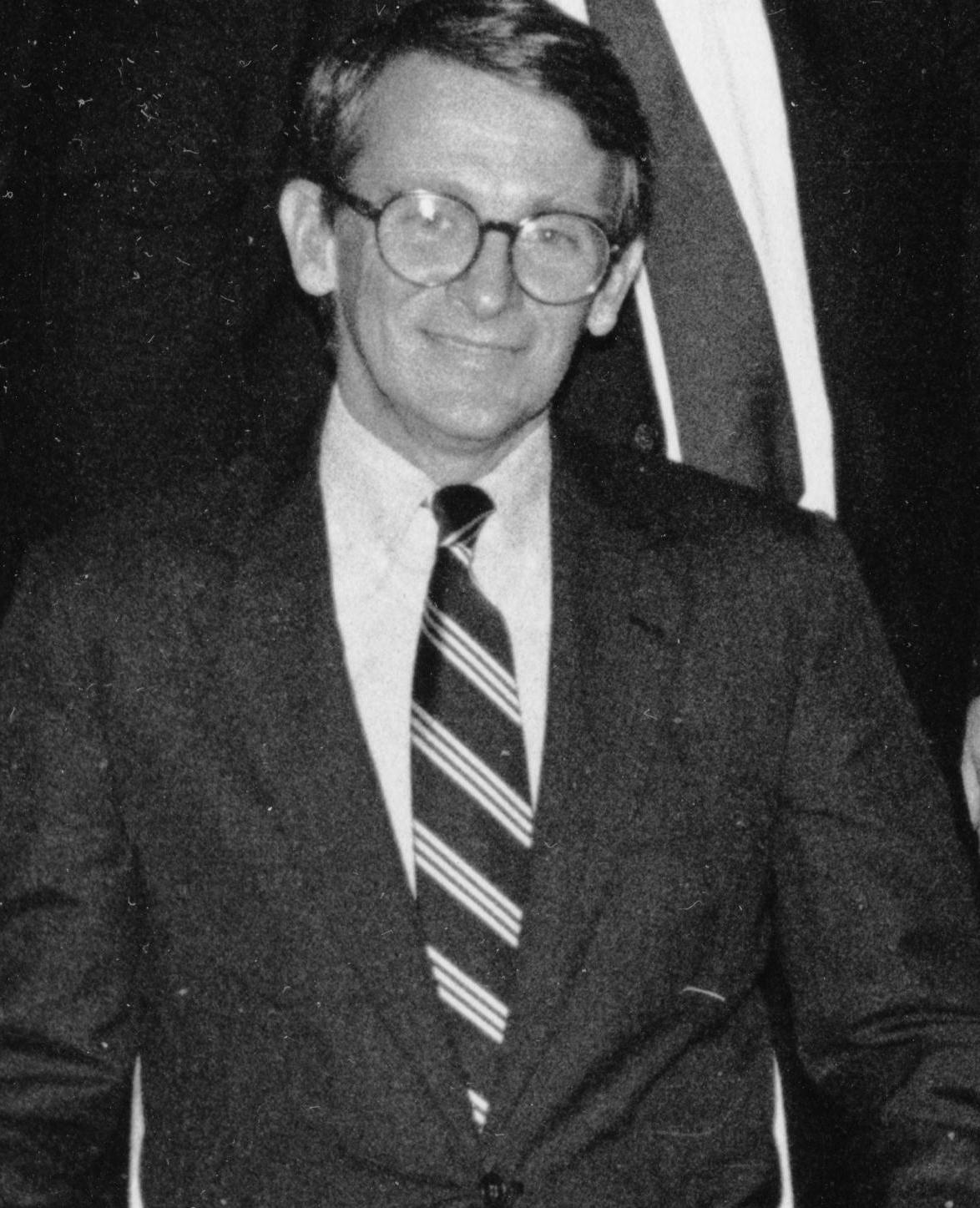 Title: U.S. Conference of Mayors Creator: Mayor's Office - City Photographer Date: 1985 September 14 Source: Mayor Raymond L. Flynn records, Collection #0246.001 File name: RF_0549 Rights: Copyright City of Boston Citation: Mayor Raymond L. Flynn records, Collection #0246.001, City of Boston Archives, Boston